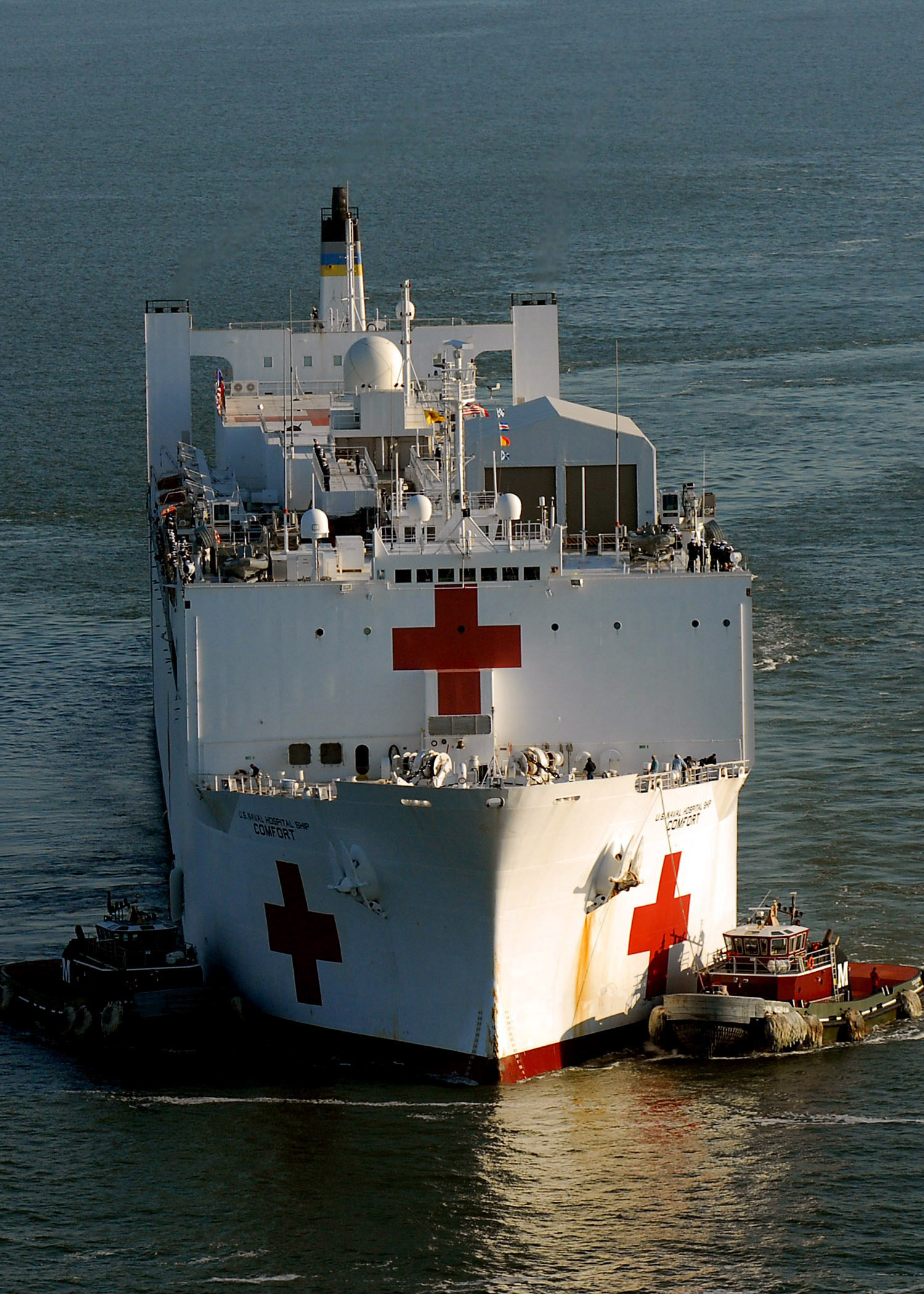 The Military Sealift Command hospital ship USNS Comfort (T-AH 20) arrives at Naval Station Norfolk, Va., on Oct. 15, 2007, after a four-month humanitarian deployment to 12 countries in Latin America and the Caribbean.